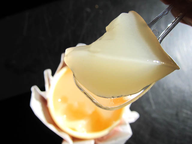 Me So Hungry food blog